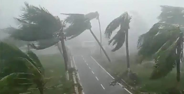 Tweet Text: Hon'ble PM Applauded Odisha's #CycloneFani Preparedness in Japan While interacting with Indian Community in Japan, Sri @narendramodi appreciated Odisha's efforts & highlighted how damage was controlled & losses were kept to minimum by use of Govt Resources & Space Technology.